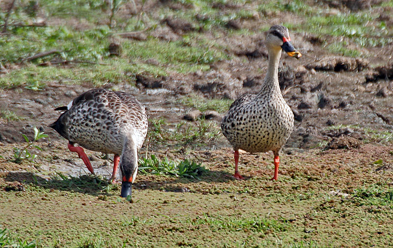 Spot-billed Duck (Anas poecilorhyncha) at Keoladeo National Park, Bharatpur, Rajasthan, India.